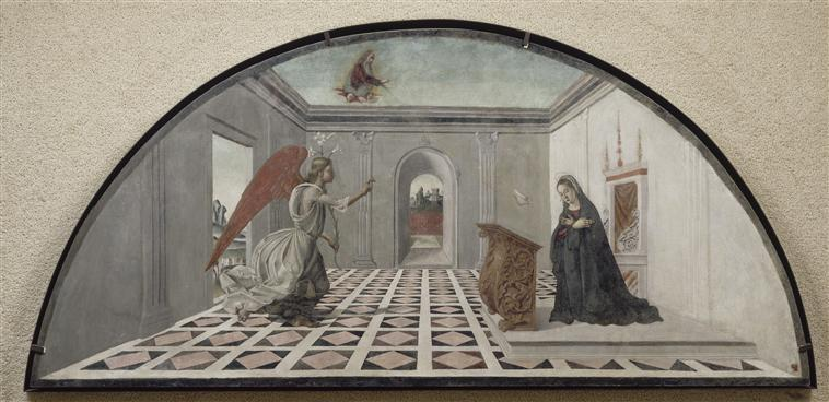 The Annunciation